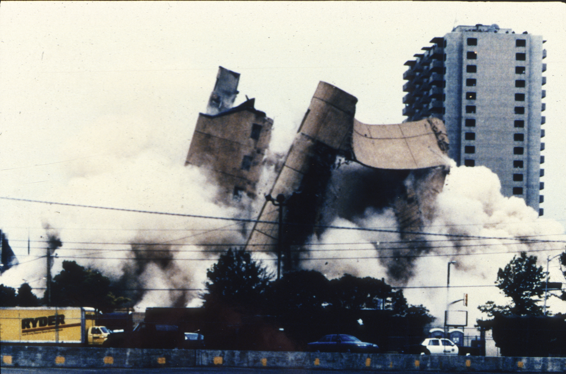 The Murrah Building is demolished more than a month after the Oklahoma City bombing. The bombing had occurred with a Ryder truck similar to the one in the lower left of the picture.